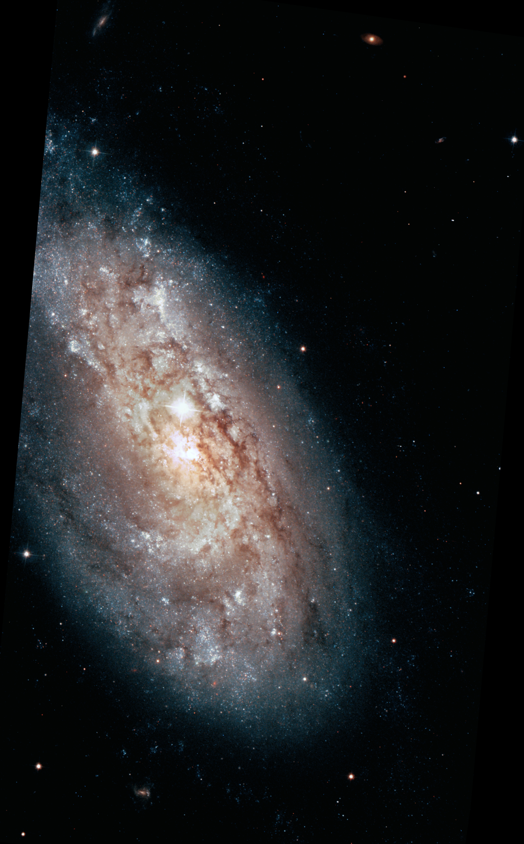 Galaxy NGC 6207, by HST (ACS: 435, 555 and 814 nm).